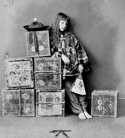 Xie Kitchin in 'Tea merchant (off duty)': This was first published in Carroll's biography by his nephew: Collingwood, Stuart Dodgson (1898) The Life and Letters of Lewis Carroll, London: T. Fisher Unwin, pp. p. 396 Retrieved on 22 December 2010.